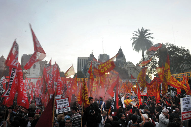 Frente de izquierda en la plaza de mayo